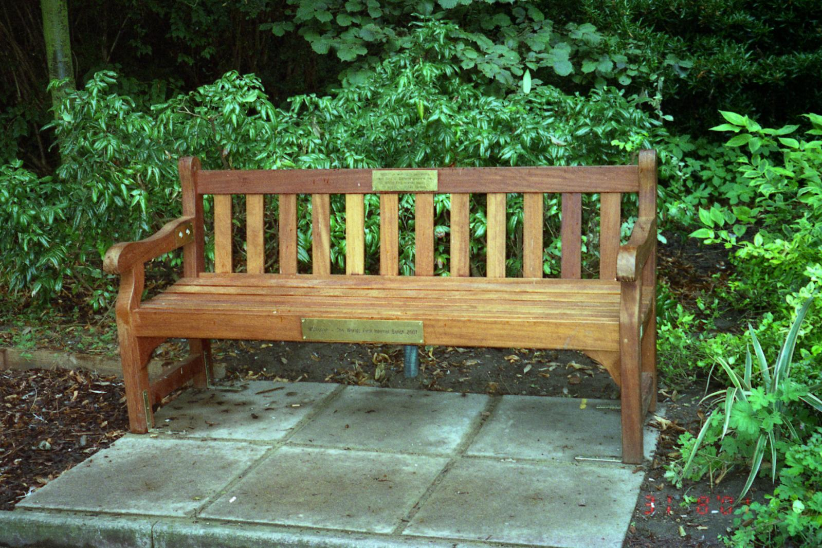 " working in partnership with Bury St Edmunds presents the World's First Internet Bench for visitors to Abbey Gardens" 2001